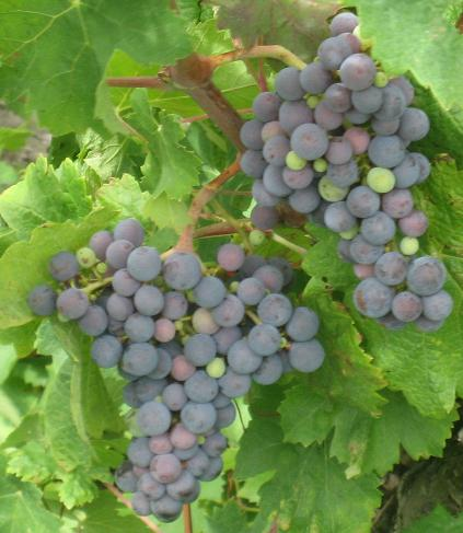 Carménère grapes. Cropped from Image:Blue grapes.jpg by Simon-sake at nl.wikipedia.